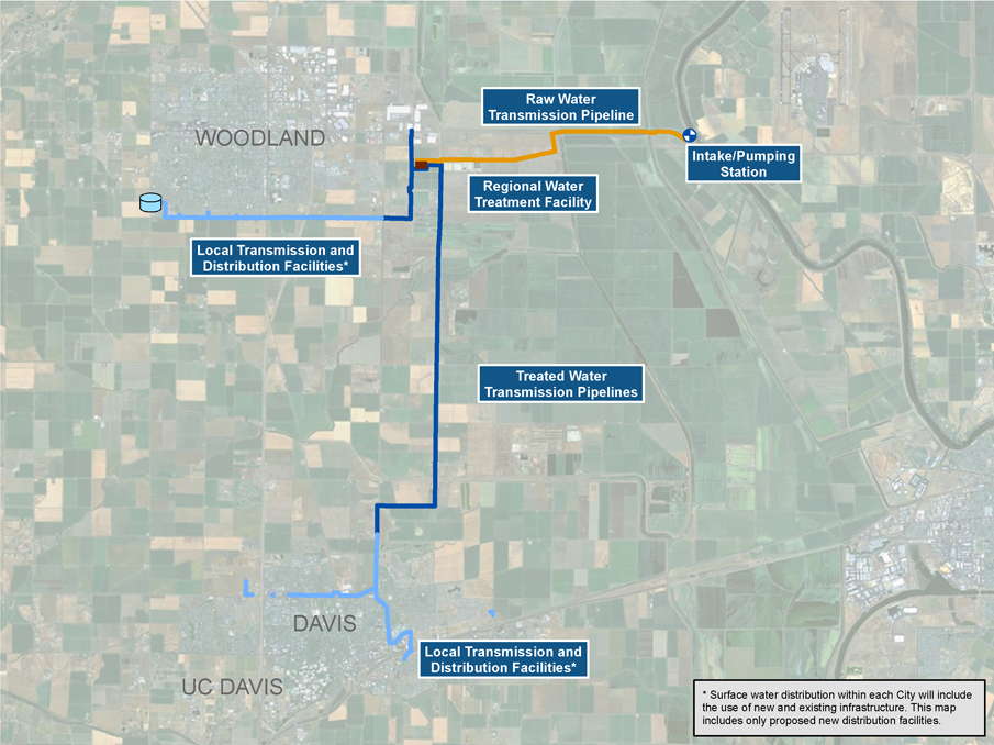 WDCWA map